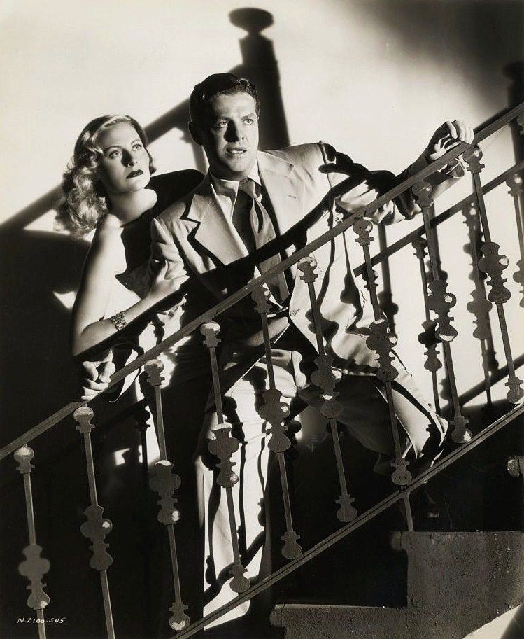 Michèle Morgan & Robert Cummings in The Chase - publicity still (cropped : see source)